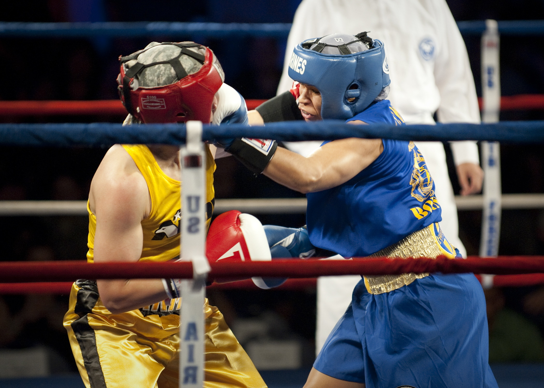 Lance Cpl. Melissa O. Parker went toe-to-toe with Army Reserve Spc. Caroline R. Barry during her Feb. 18 bout at the 2011 Armed Forces Championships at Lackland Air Force Base, Texas. Parker was outpointed 13-10, but will go on to compete in the 2011 Golden Gloves Boxing Championships in San Antonio.